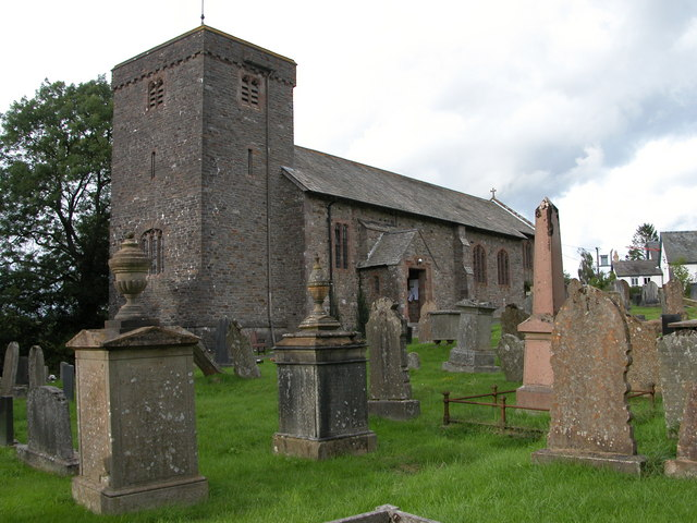 Llangammarch Wells Church. The church is dedicated to St Cadmarch.